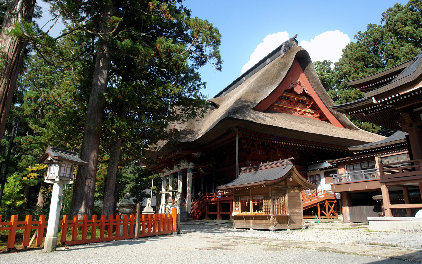 Ideha jinja Haiden